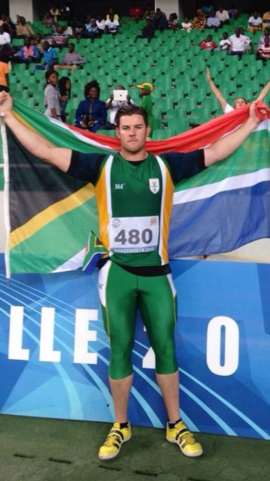 Russell Tucker, winning All african games 2015, celebrations with South African Flag